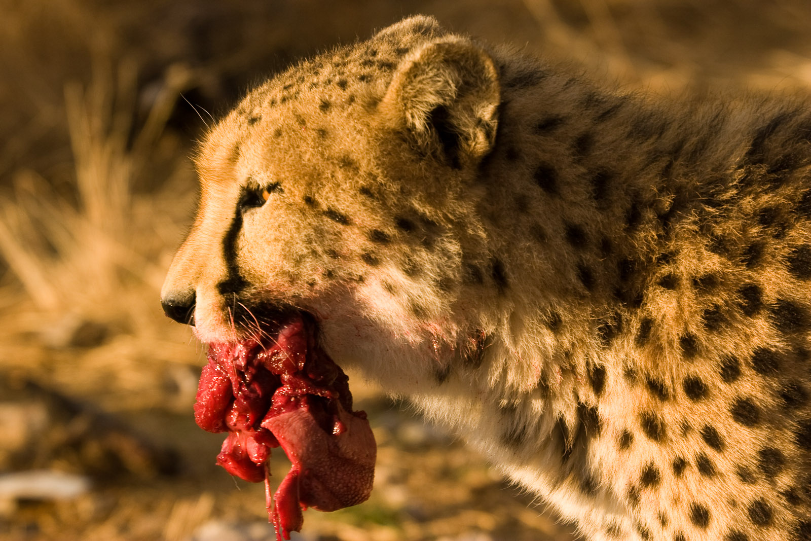 Cheetahs Eating